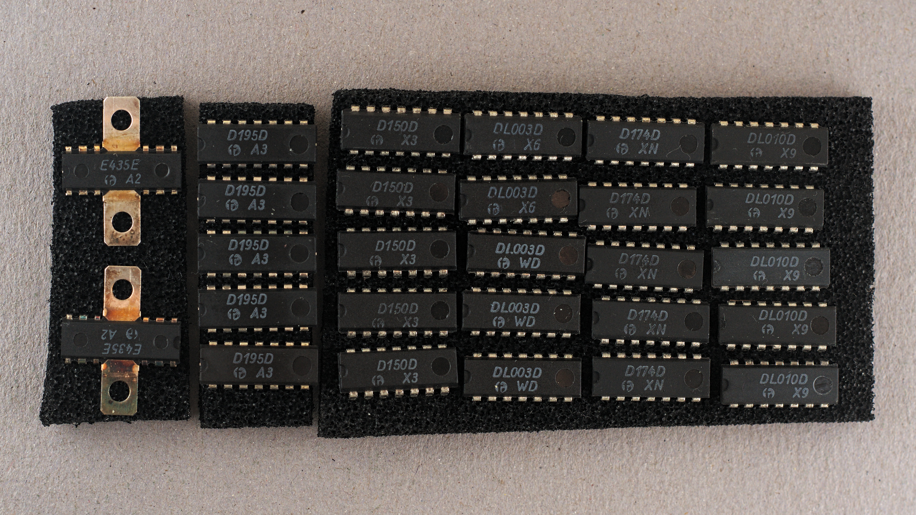 Some Integrated Circuits manufactured in the Halbleiterwerk Frankfurt (Oder) semiconductor plant. HFO was the German Democratic Republic's biggest producer of microelectronics. All ICs shown here are (sometimes slightly changed) copies of either US American or West German types.